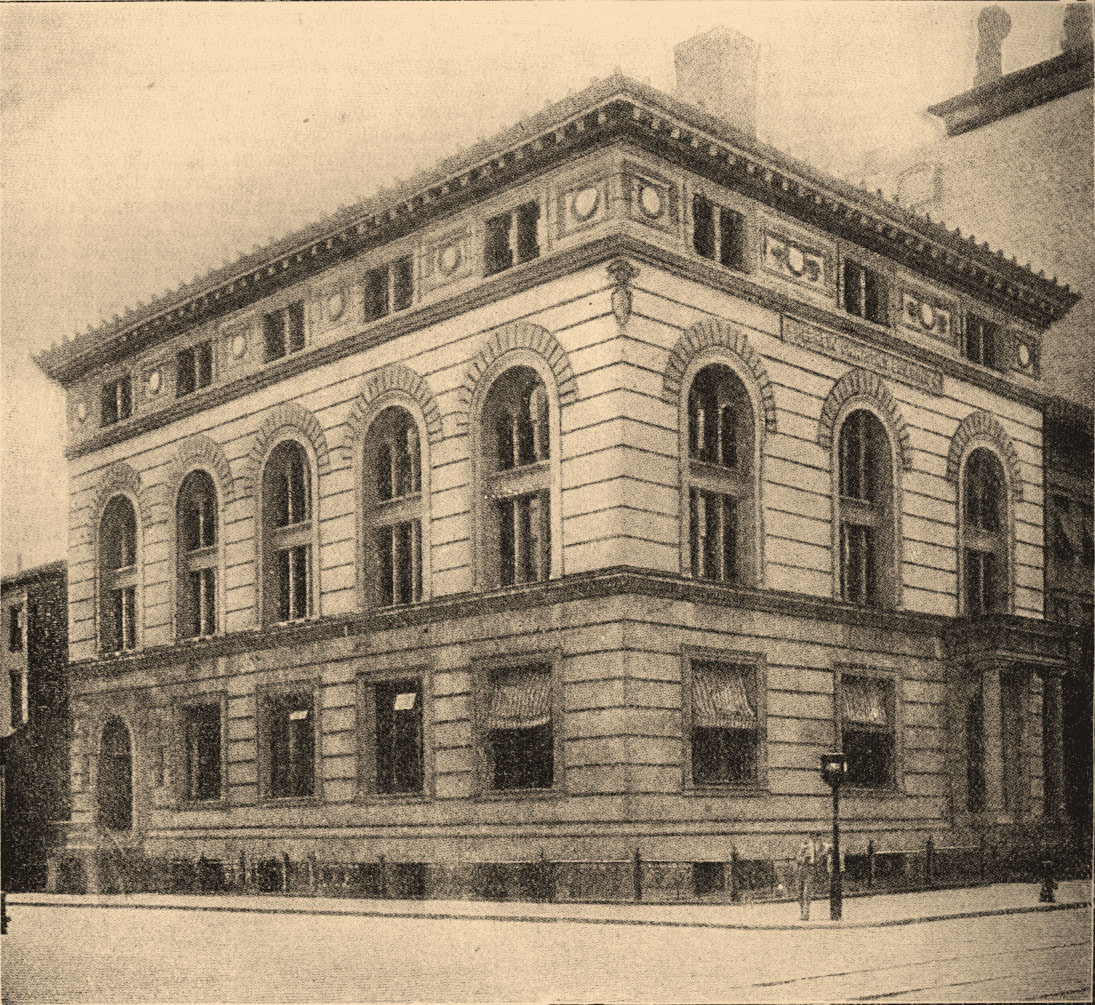 Hebrew Charities Building, Second Avenue and 21st Street, New York, New York. The building was the headquarters of United Hebrew Charities, whose present-day successor is the Jewish Board of Family and Children's Services (JBFCS). Illustration from Brockhaus and Efron Jewish Encyclopedia (1906—1913)